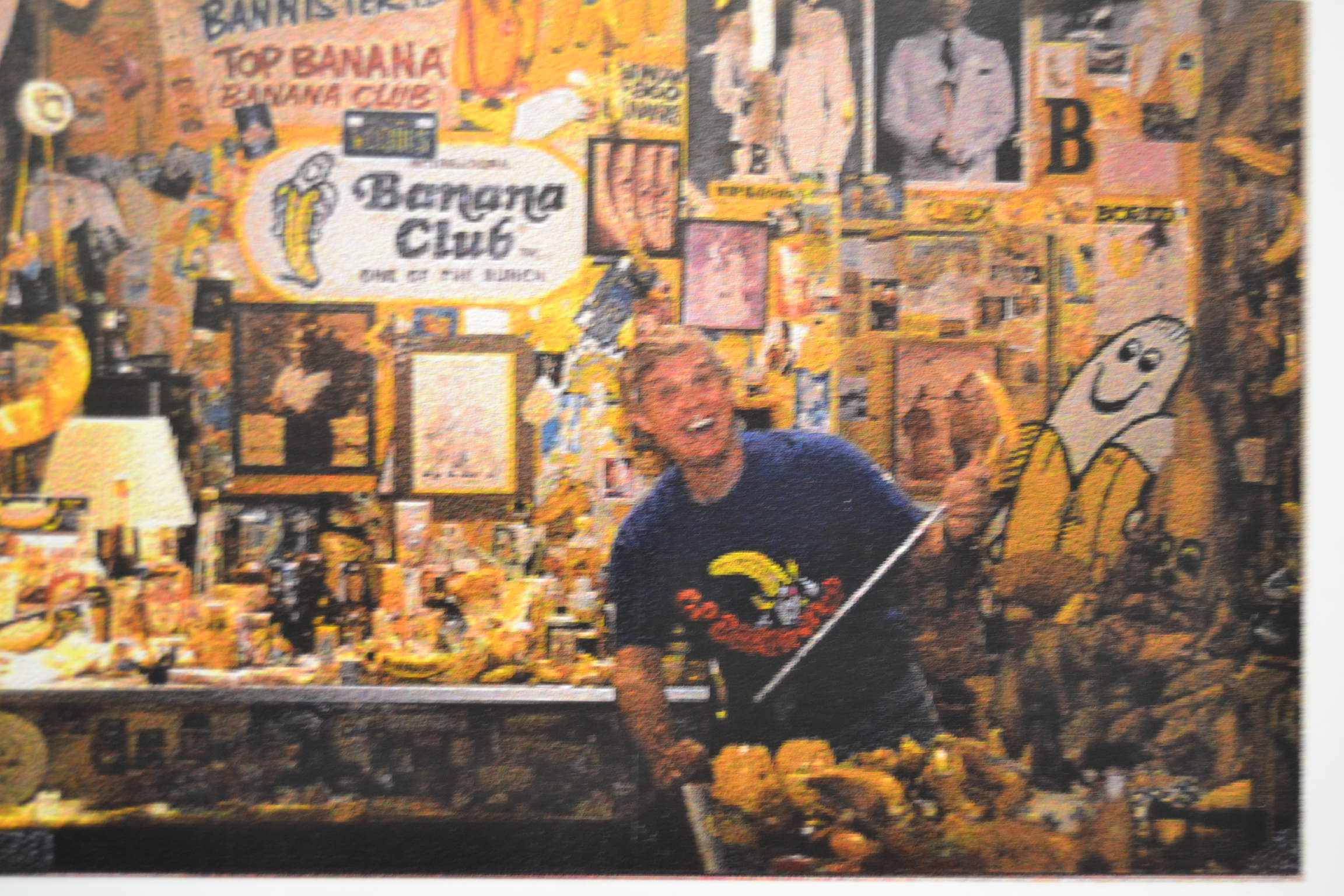 Self Image of myself at the International Banana Club Museum in Altadena, CA back in 1976. This collection was a Guinness Book Record as the "Most Items Devoted To ONE FRUIT" and published in the Golden Anniversary Book in 2005.